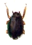 Gyrinus marinus, from Calwer's Käferbuch, Table 8, Picture 22. Taxonomy was updated to 2008, using mostly the sites Fauna Europaea and BioLib. Please contact Sarefo if the determination is wrong!